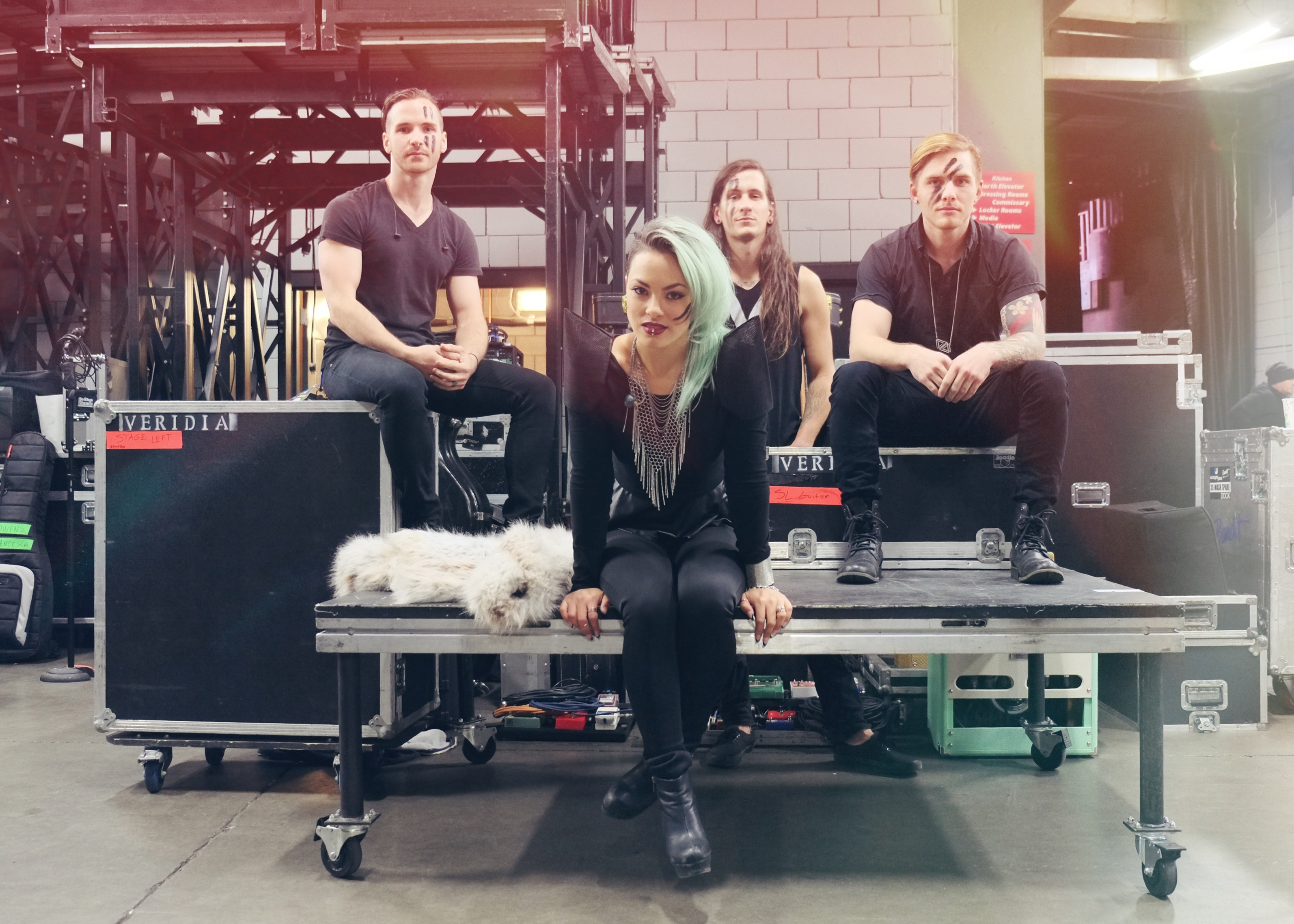 VERIDIA backstage at Winter Jam West 2014.